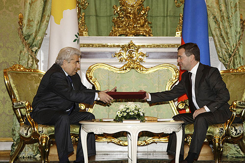 THE KREMLIN, MOSCOW. With President of the Republic of Cyprus Demetris Christofias. Mr Medvedev presented his Cypriot colleague with historic documents on the Soviet Union’s recognition of the Republic of Cyprus.